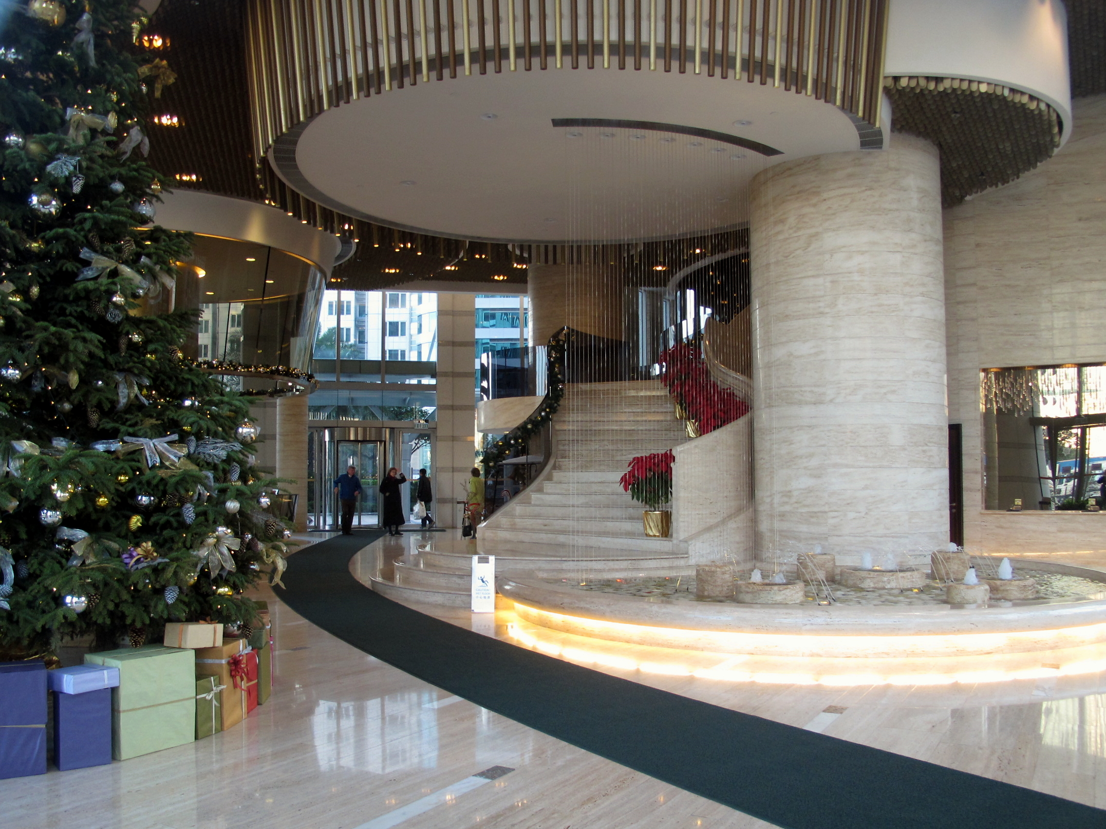 Harbourfront Horizon Lobby